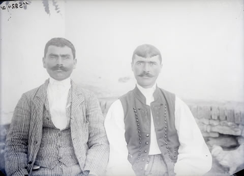 two men from Panticeu/Páncélcseh, in 1913